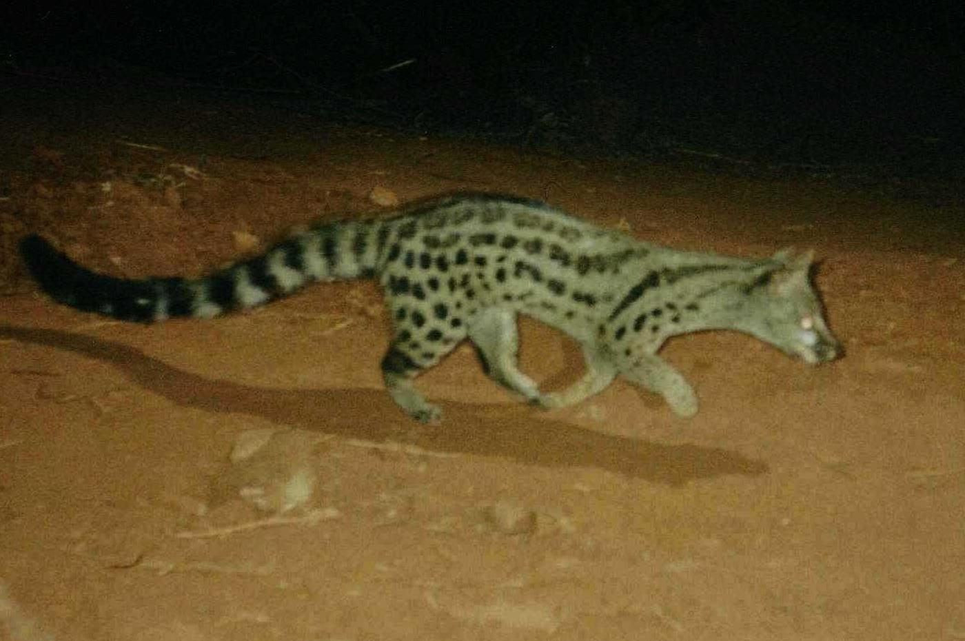 Rusty-spotted genet